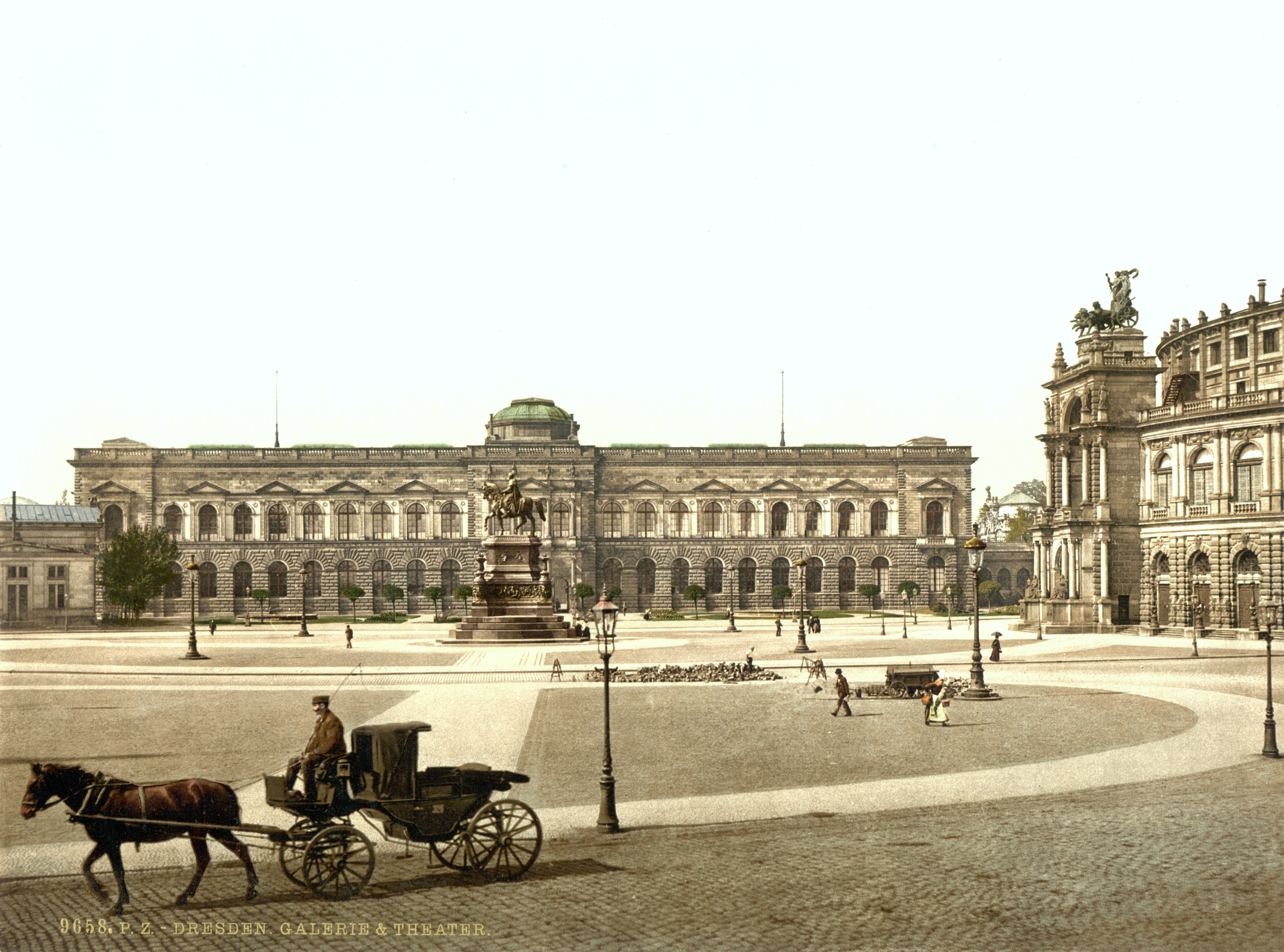 Dresden (Saxony, Germany) - Theaterplatz, Zwinger and Semperoper